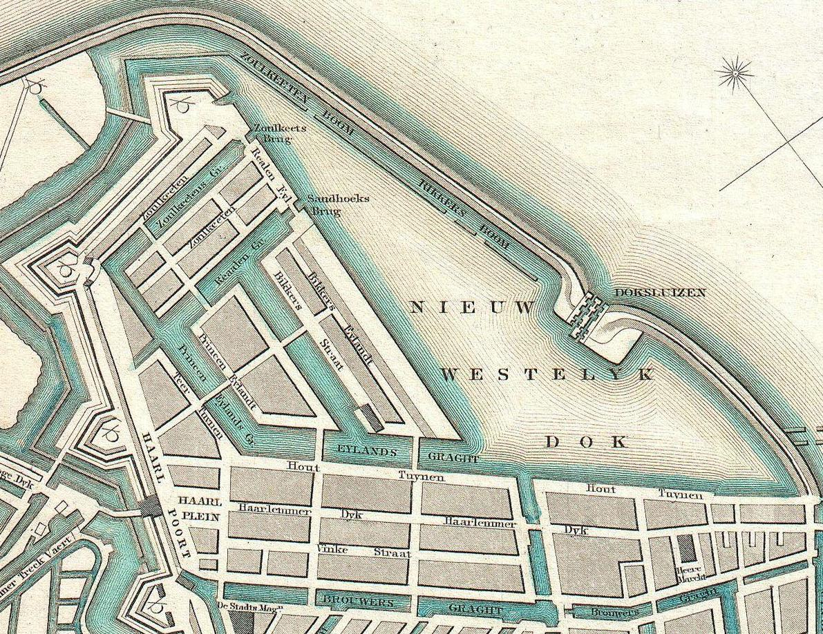 Detail of 1835 map of Amsterdam published by Baldwin & Cradock of Paternoster Row, London, for the S.D.U.K. atlas. Shows the New West Docks area.